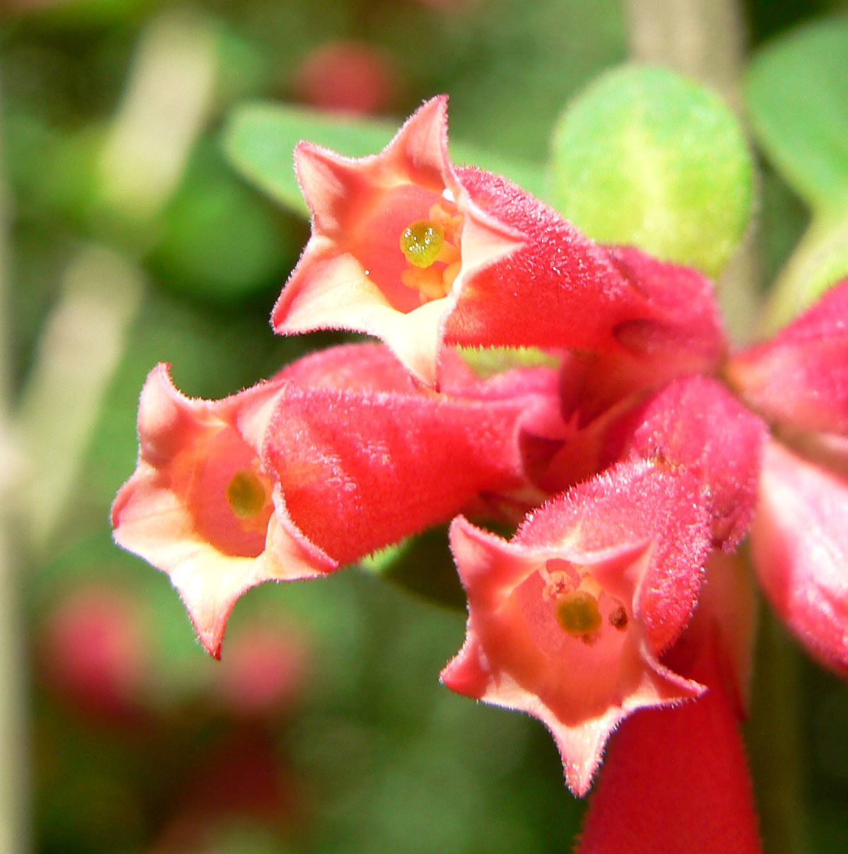 Cestrum fasciculatum at the University of California Botanical Garden, Berkeley, California